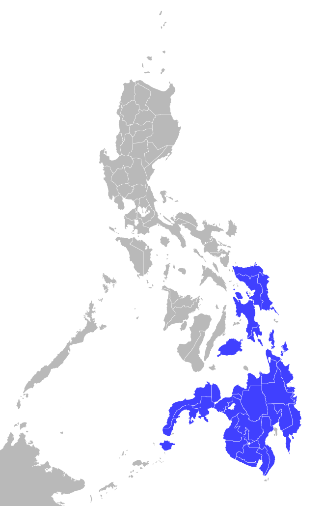 Geographic distribution of the Philippine Tarsier.